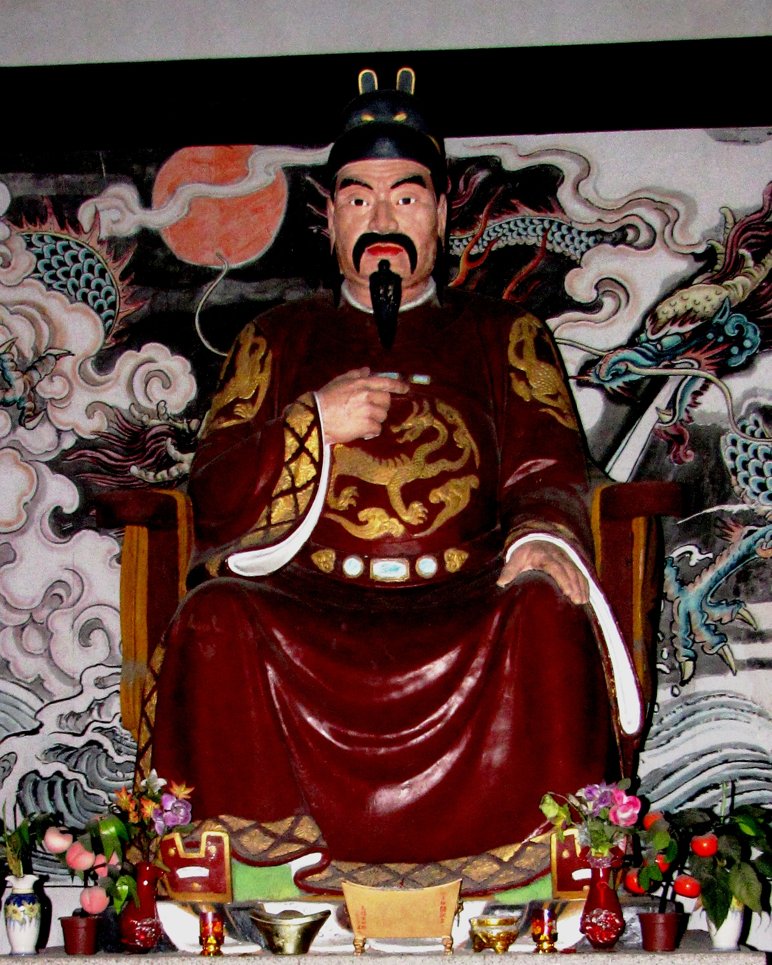 Sculpture of Wang Shenzhi (Uong Sing-di) in Wang Shenzhi Temple, Fuzhou, China Mìng-dĕ̤ng-ngṳ̄: Mìng-uòng-sṳ̀ gì Uòng Sīng-dĭ sióng / 閩王祠倛王審知像 Bân-lâm-gú: Hok-chiu Bân-ông-sû ê Ông Sím-ti siōng